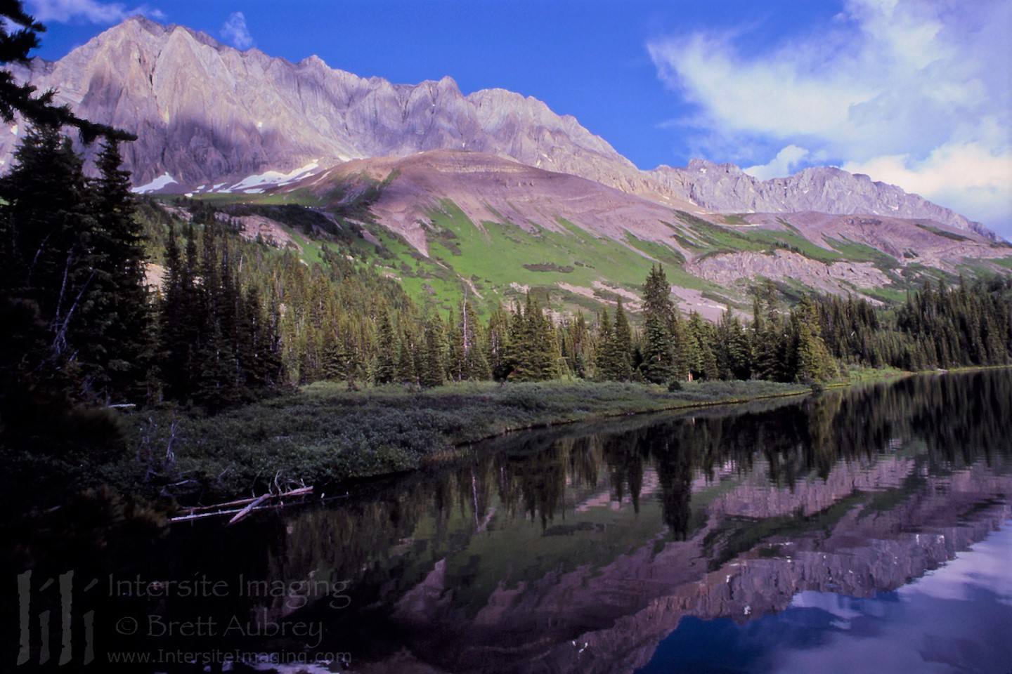 Mt. Beatty, Beatty Lake, from the W:Alberta side, in W:Kananaskis Country